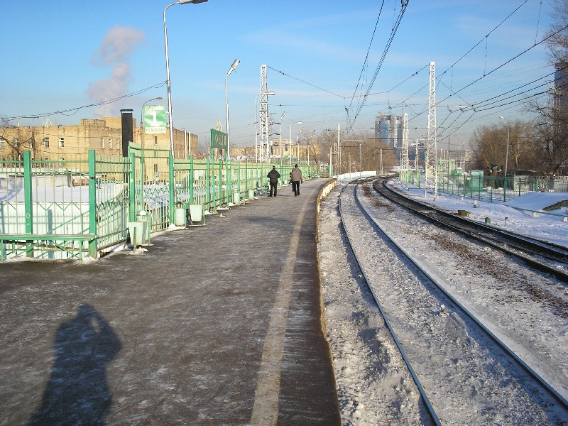 Fili railstation Moscow